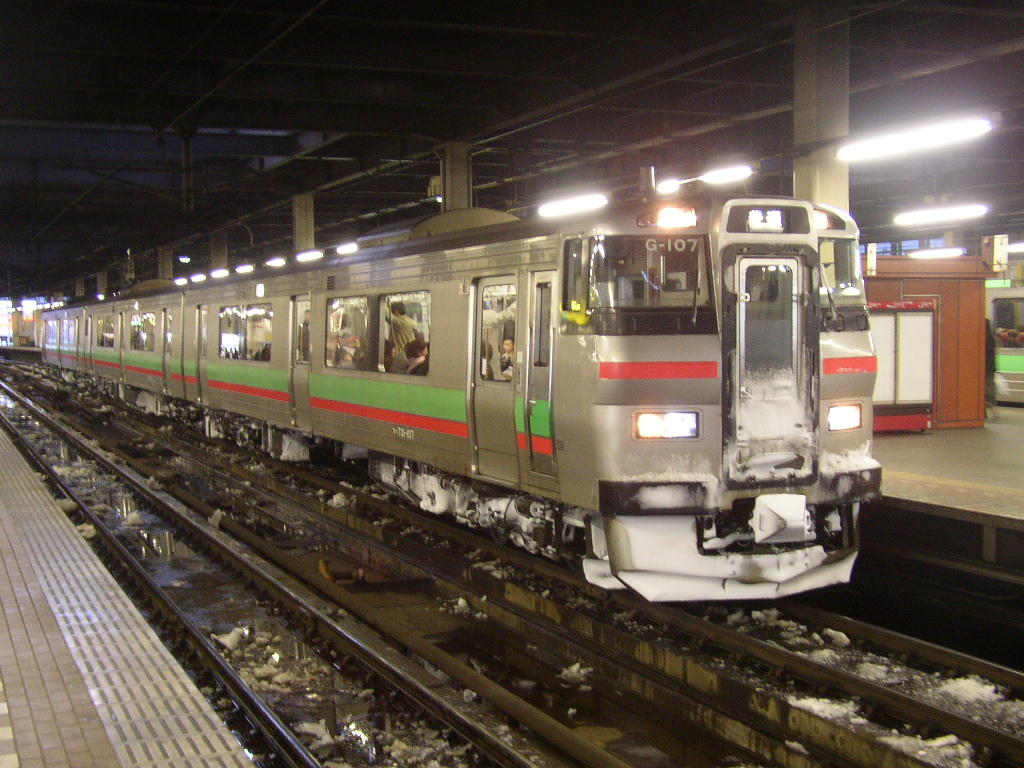 JR Hokkaido 731 series EMU G-107 unit at Sapporo Station